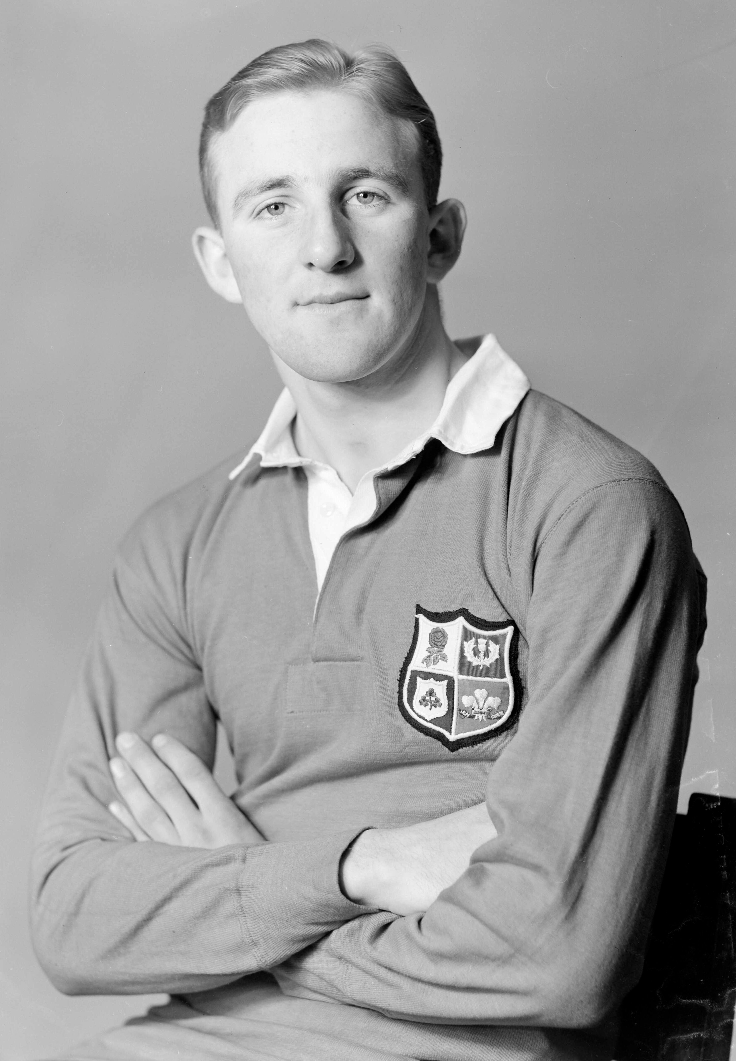 B L Jones, member of the Lions, British representative rugby union team